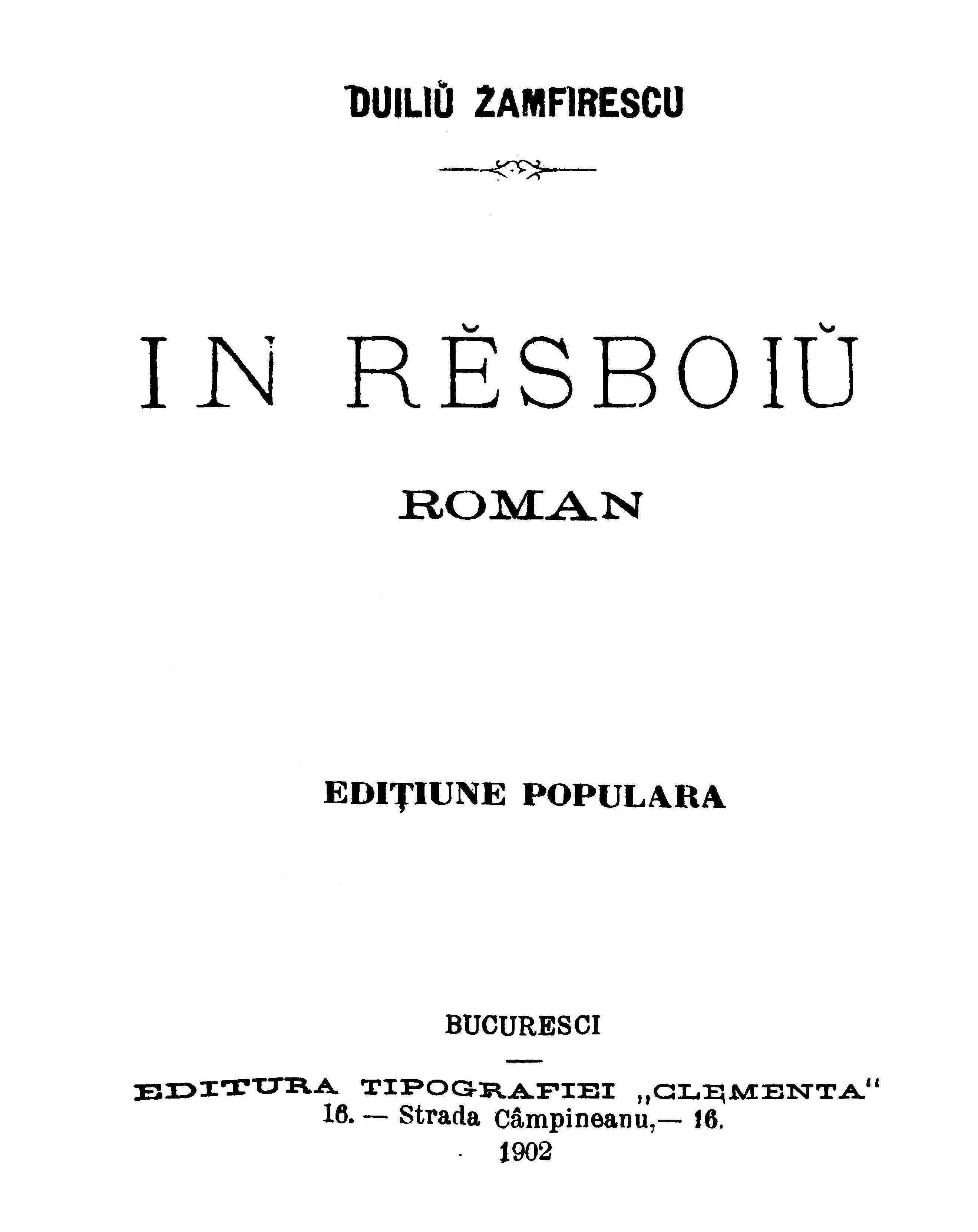 Duiliu Zamfirescu - First page of În război, published by Editura Tipografiei Clementa in 1902.